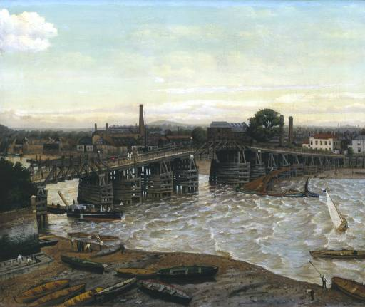 Old Battersea Bridge: oil on canvas, 584 x 672 mm. Gallery caption reads: This is a picture of Old Battersea Bridge, seen from up stream, on Lindsey Row (now Cheyne Walk), with Battersea on the far shore. The boatyard belonging to Greaves family is in the foreground. On the extreme left is the wall surrounding the garden of the artist William Bell Scott. In the far distance Crystal Palace is just visible. Battersea Bridge was demolished in 1881, and replaced with the present bridge. Before the alterations Greaves recalled the danger to shipping and the difficulty of steering through the arches unless the ‘set of the tide was known’.